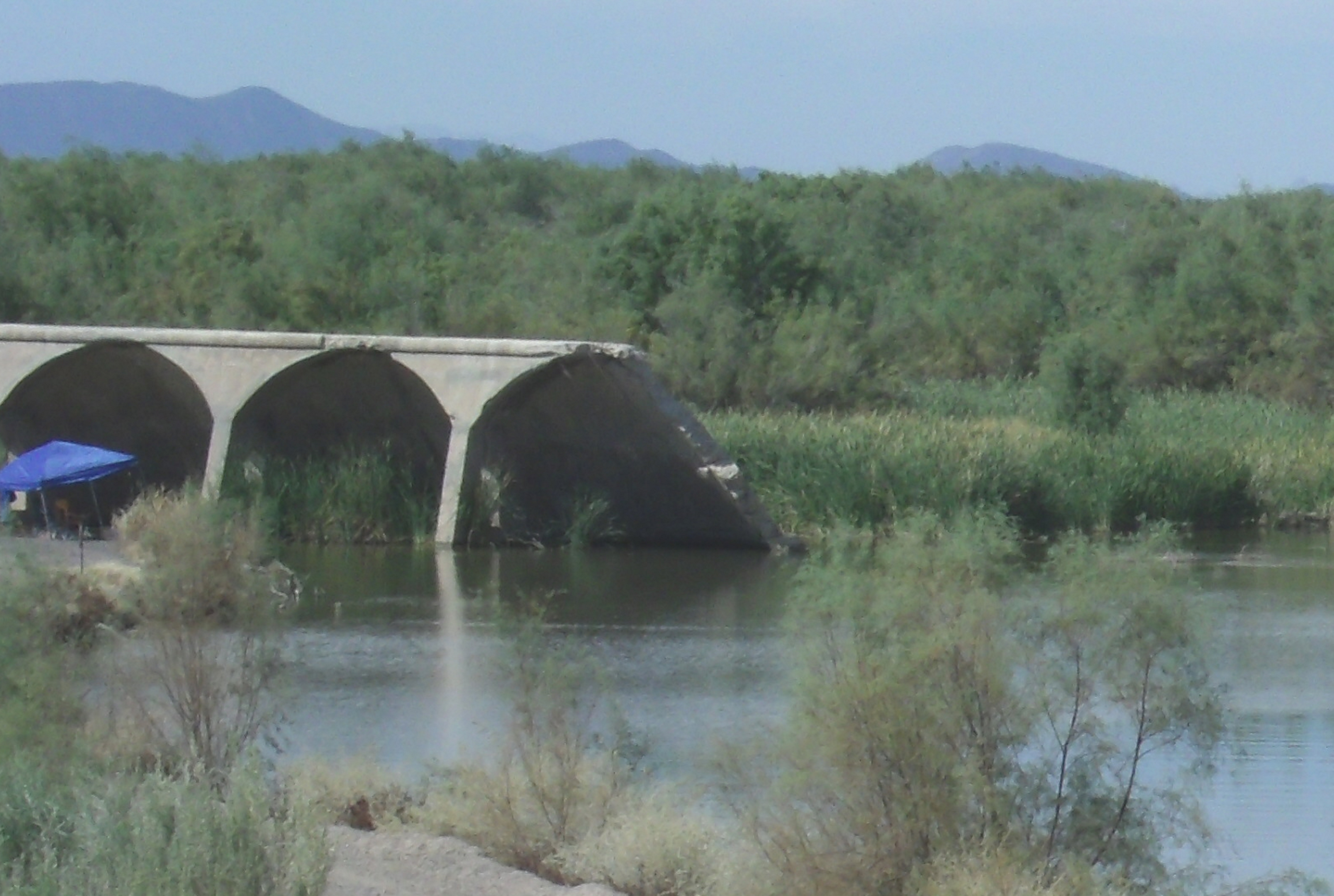 Ruins of the Gillespie Dam in Maricopa County, Arizona which was built in 1920. The dam was destroyed in 1993..